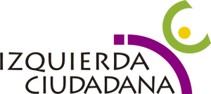 Izquierda Ciudadana Logo